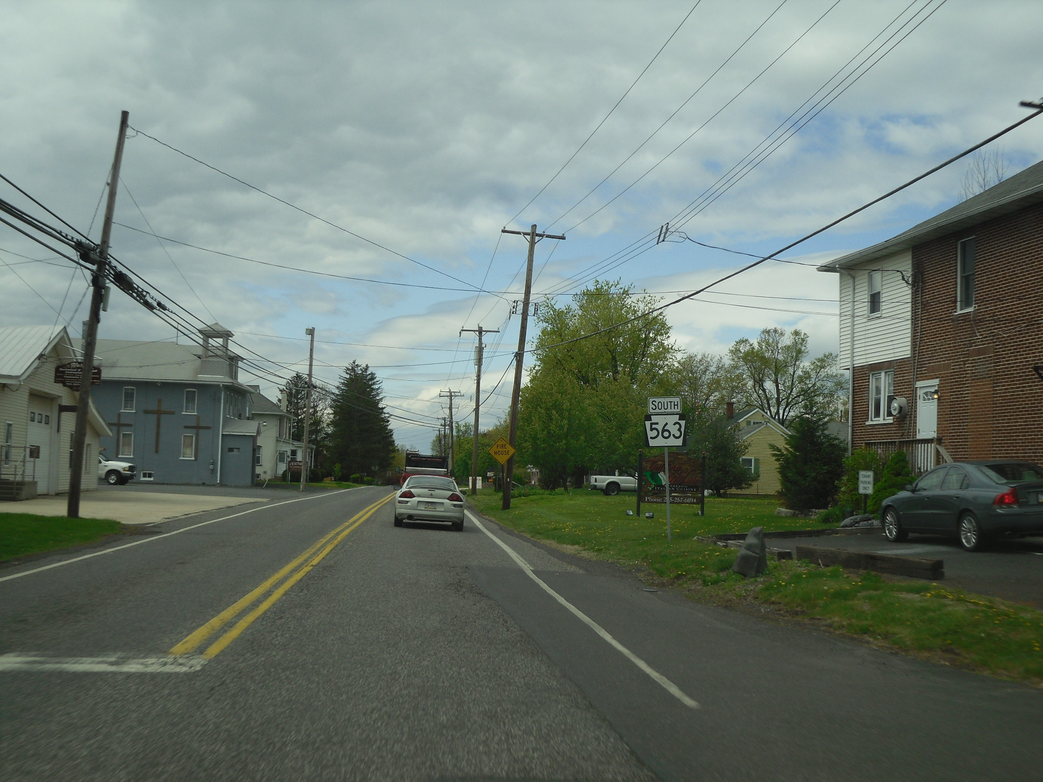 Pennsylvania State Route 563 southbound in Tylersport